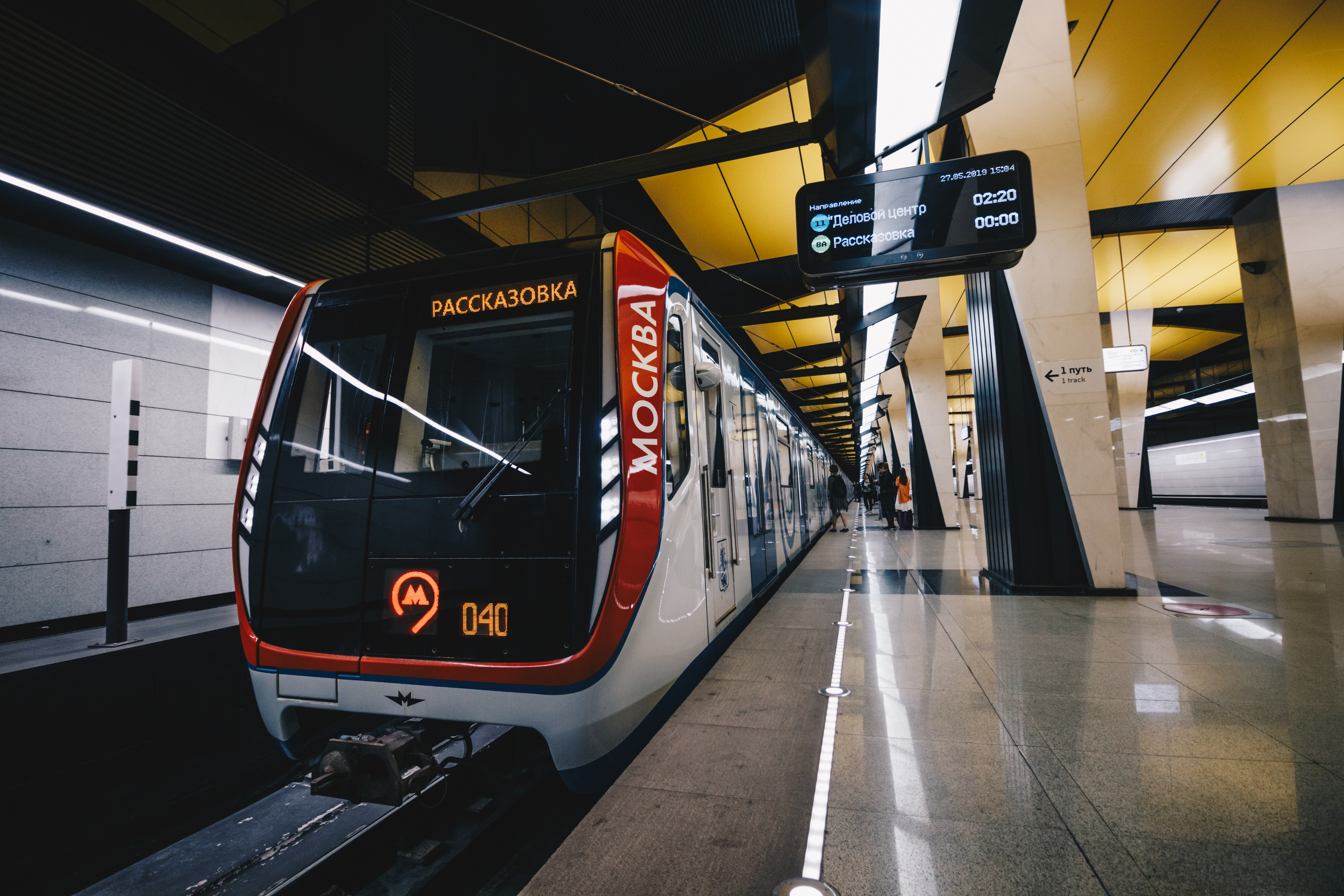 81-765 Moskva on Shelepikha station